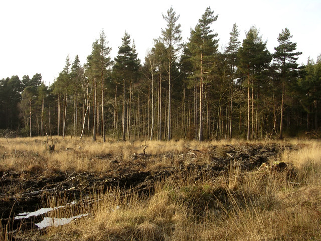 Forestry in the Foxhunting Inclosure, New Forest. The plantation was originally enclosed in 1840, and some oak from this time survives. It is mixed with more recent conifers such as the Scots pine seen here. The soil is poor and boggy, originally one of the lower slopes of Beaulieu Hilltop Heath. The area in the foreground has recently been cleared and deep ruts have been left by the forestry machinery.